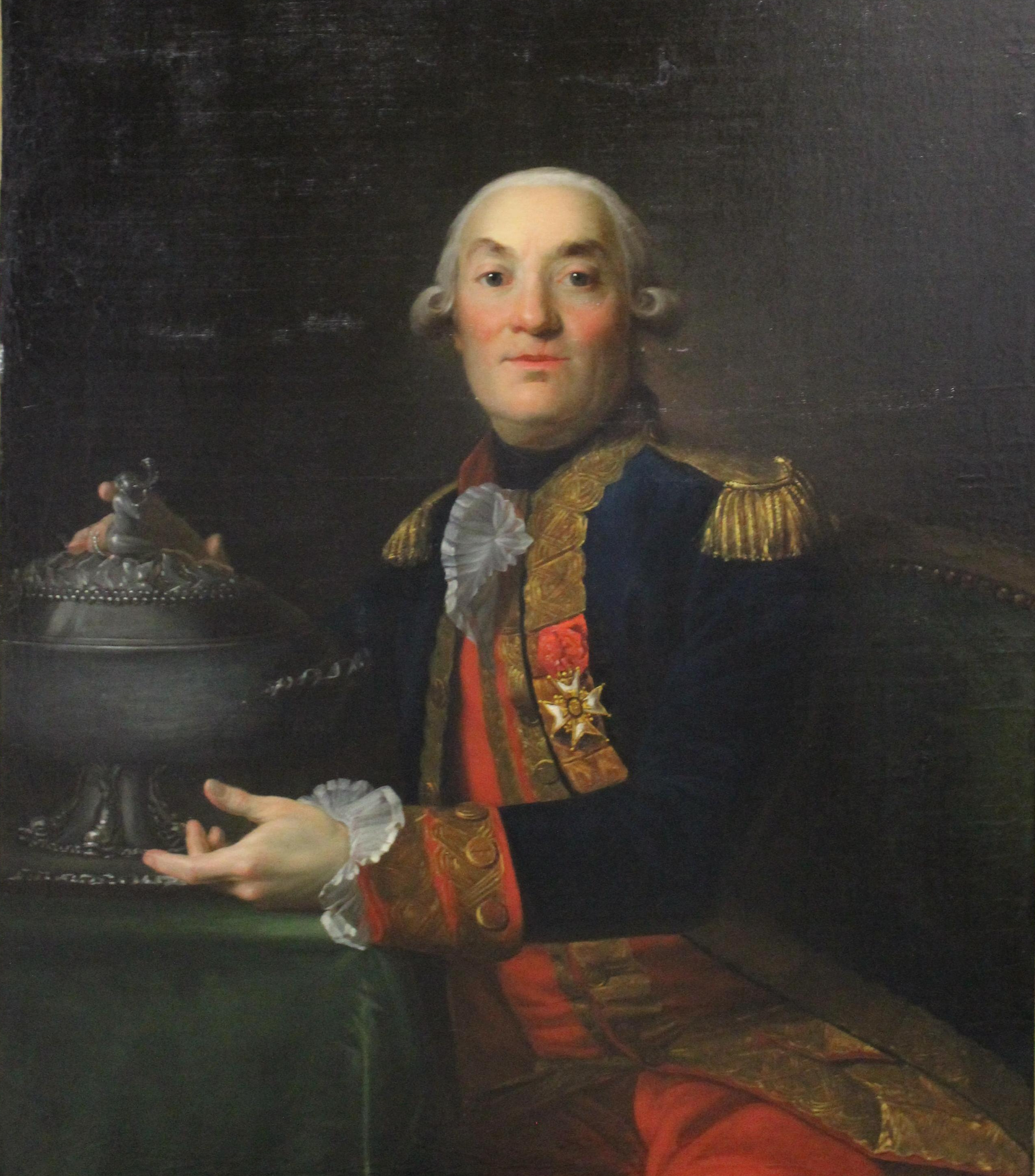 Portrait of Georges René Le Peley de Pléville (1726-1805)